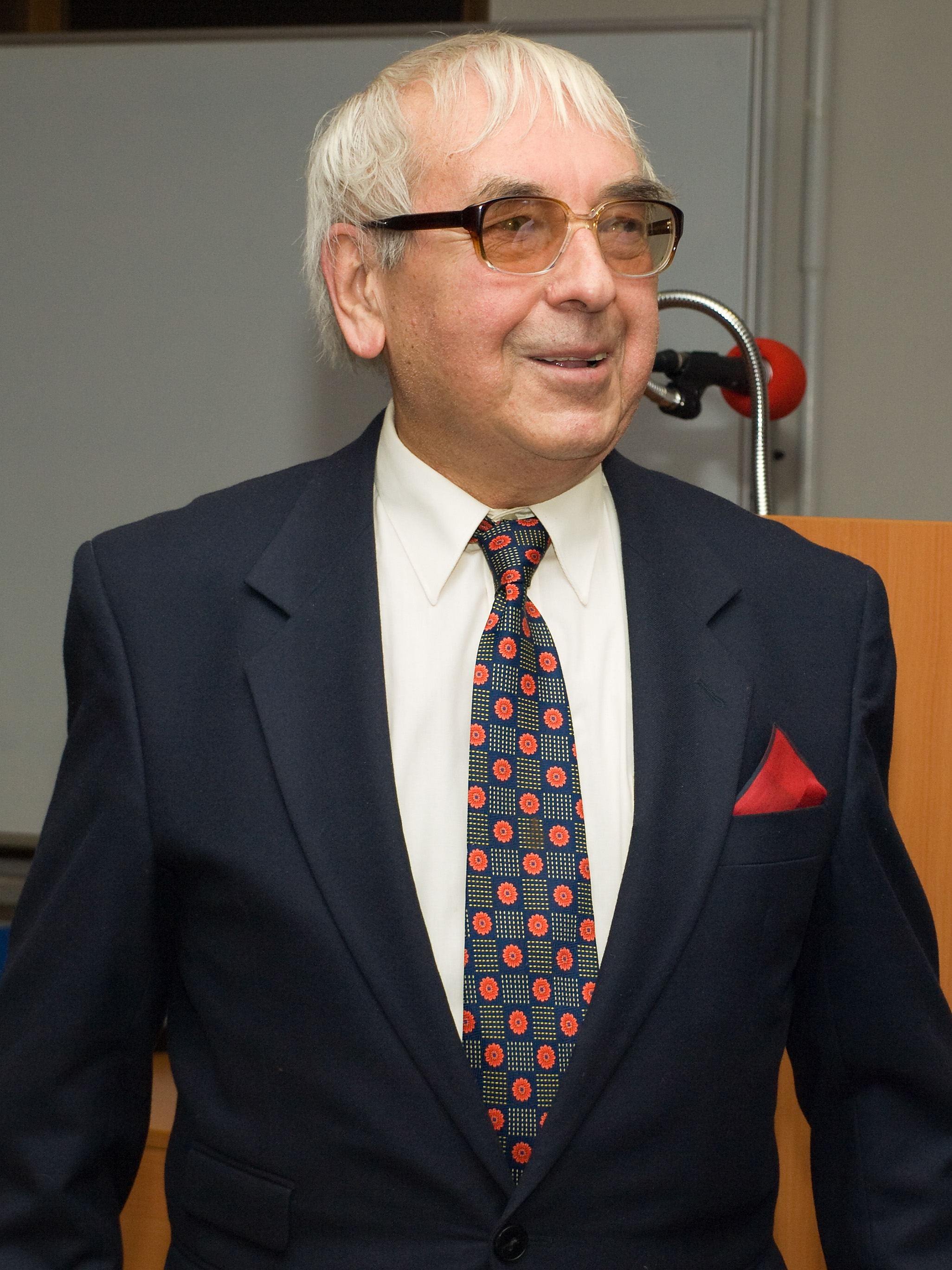 Czech educationist Jan Průcha